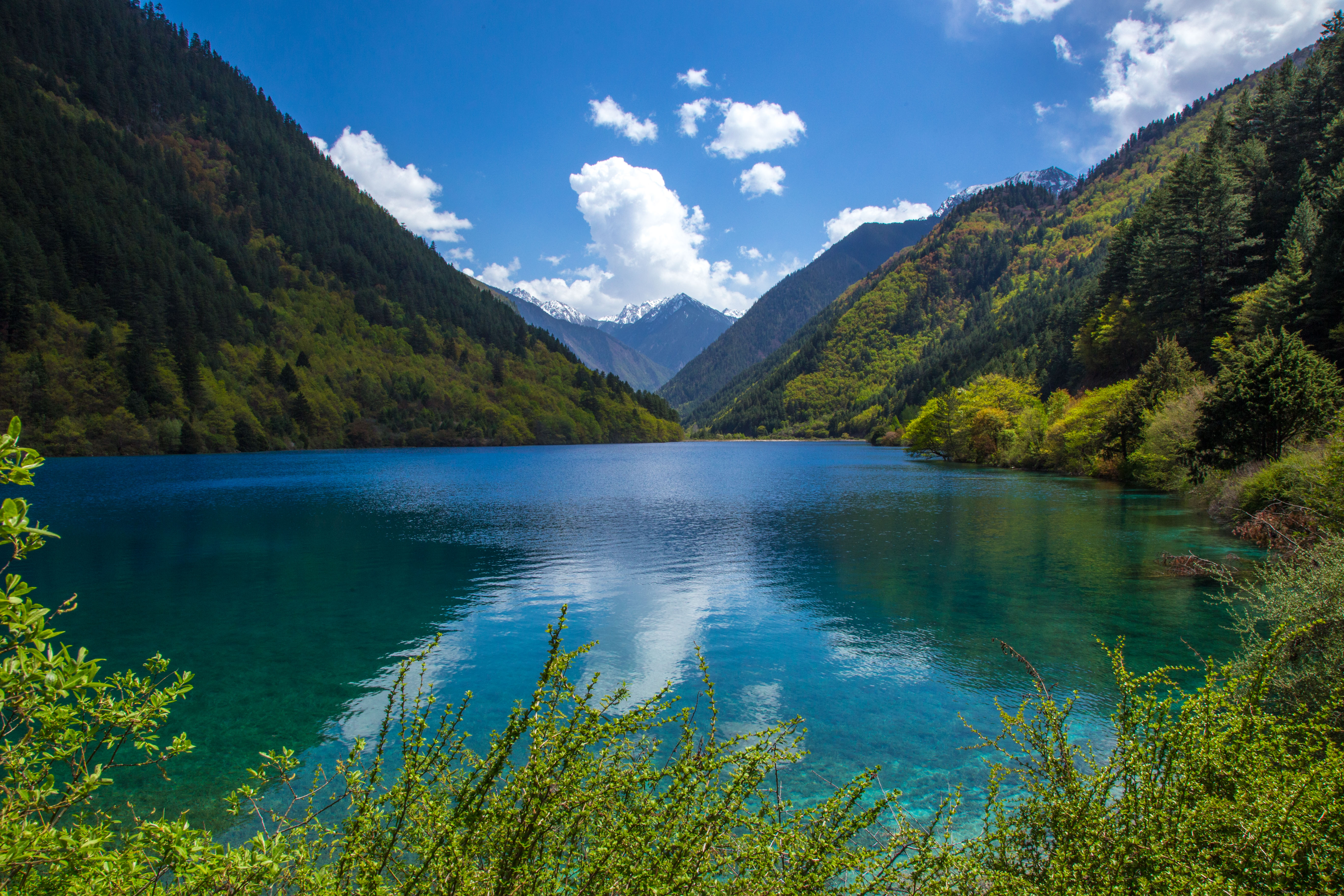 Nuorilang Lakes and Shuzheng Lakes are stepped series of respectively 18 and 19 ribbon lakes formed by the passage of glaciers, then naturally dammed. Some of them have their own folkloric names, such as the Rhinoceros and Tiger lakes.